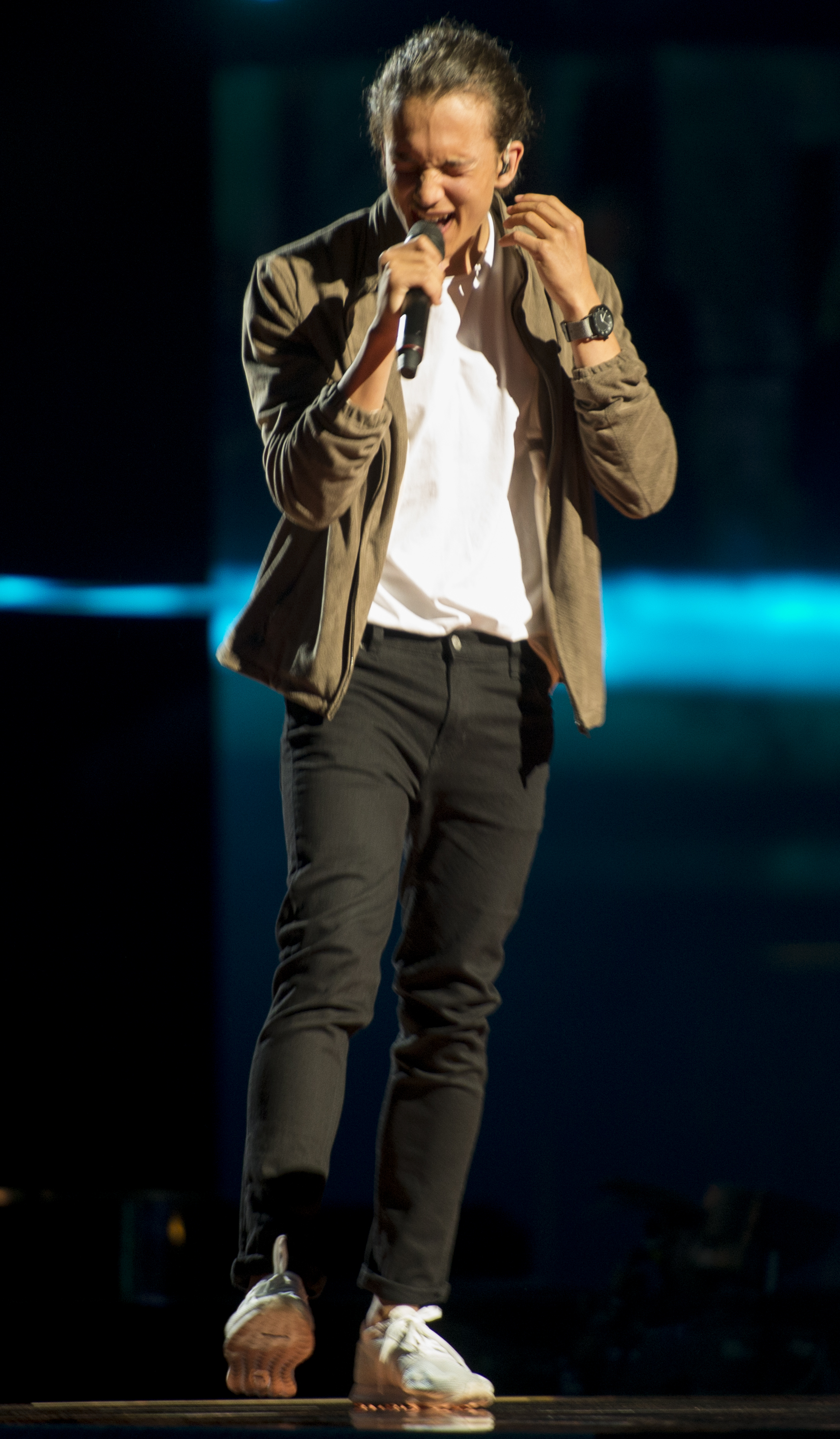 Frans representing Sweden with the song "If I Were Sorry" during the first dress rehearsal of the final of the Eurovision Song Contest 2016 in Stockholm. (Help translate this text)